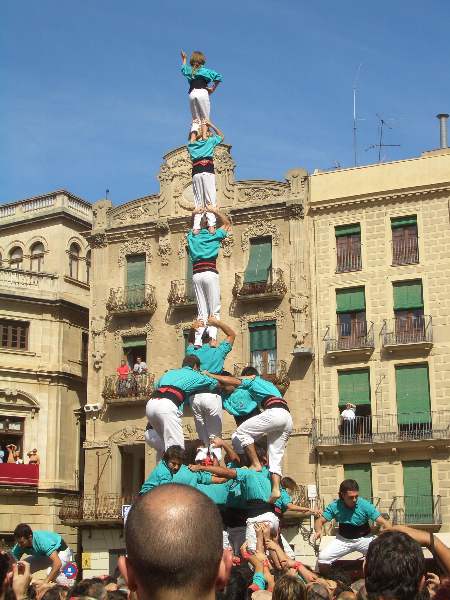 4 de 8 amb l'agulla, (quatre de vuit amb el pilar al mig) dels Castellers de Vilafranca, Diada del Mercadal